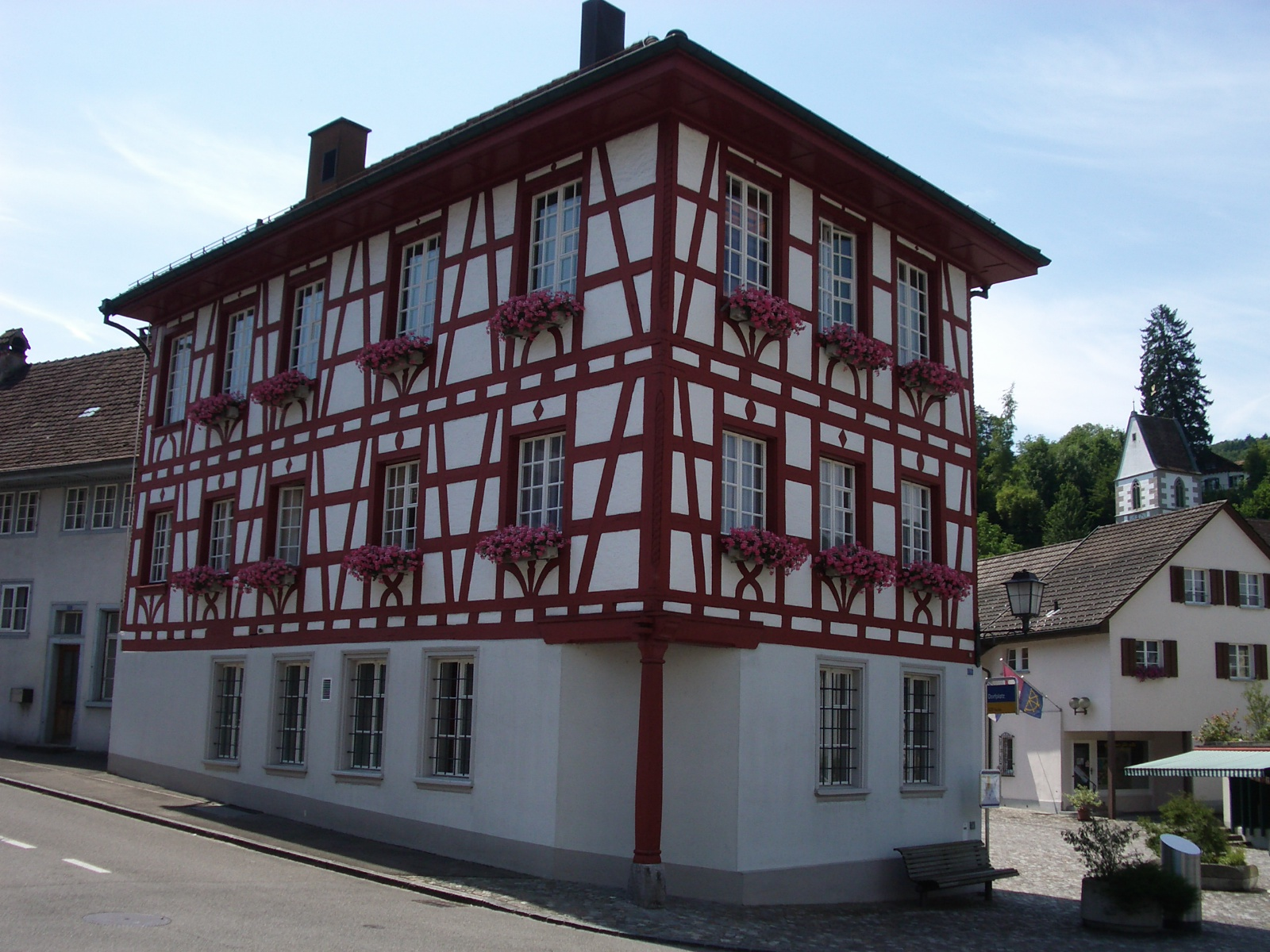 Town hall, Rorbas ZH, Switzerland